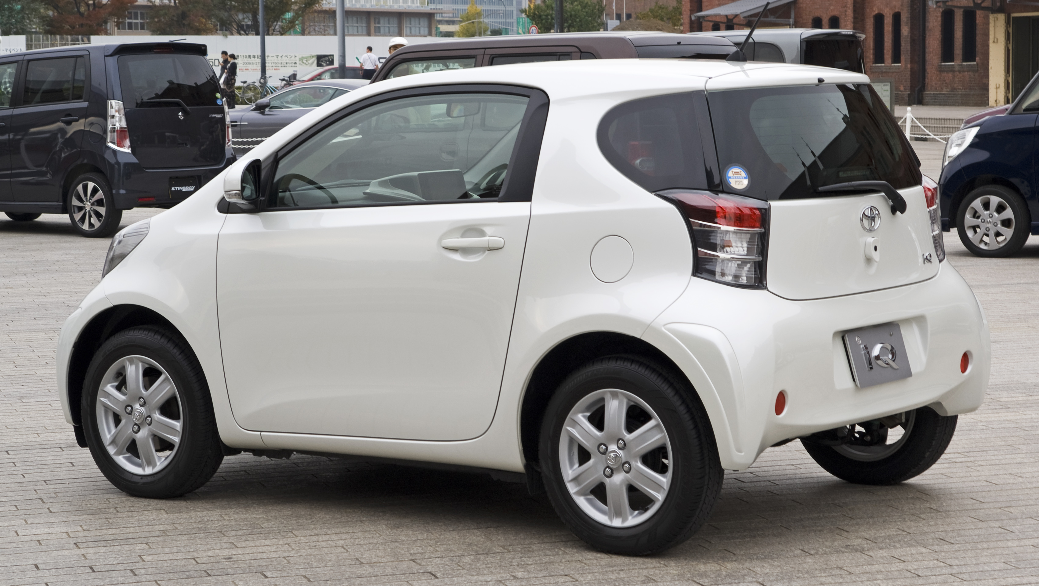 Toyota iQ photographed in Yokohama Red Brick Warehouse